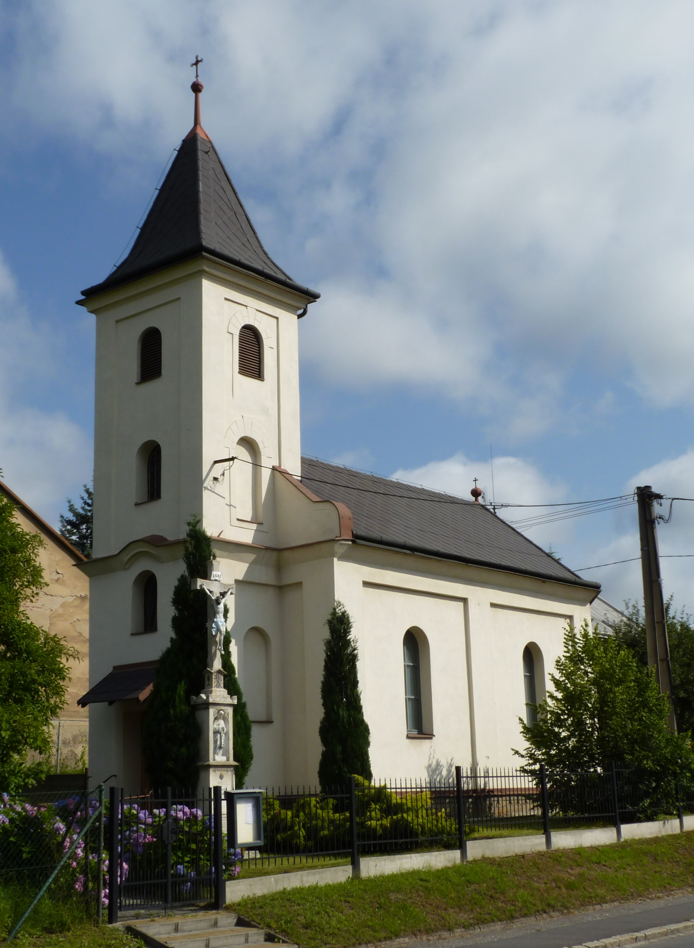 Petřkovice, Ostrava. Ostrava-city District, Moravian-Silesian Region, Czech Republic